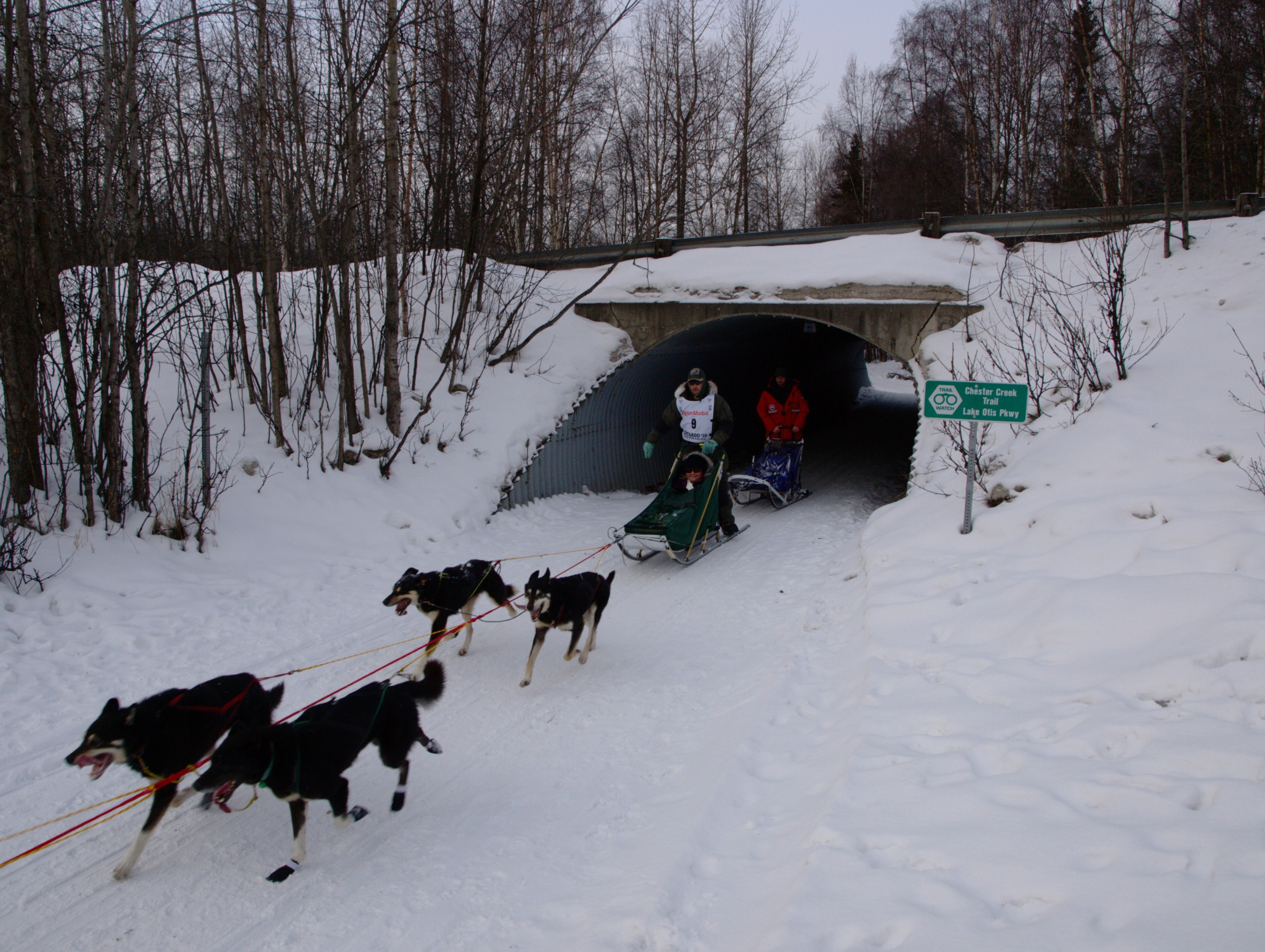 Ray Redington Jr Ceremonial start of 2010 Iditarod in Anchorage